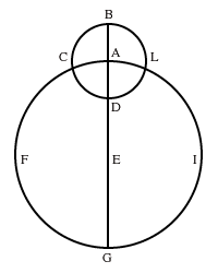 "The greater circle represents the orbit of the Earth around the Sun...while the smaller one is the rotating Earth itself" (Palmeri 1998, p. 229).